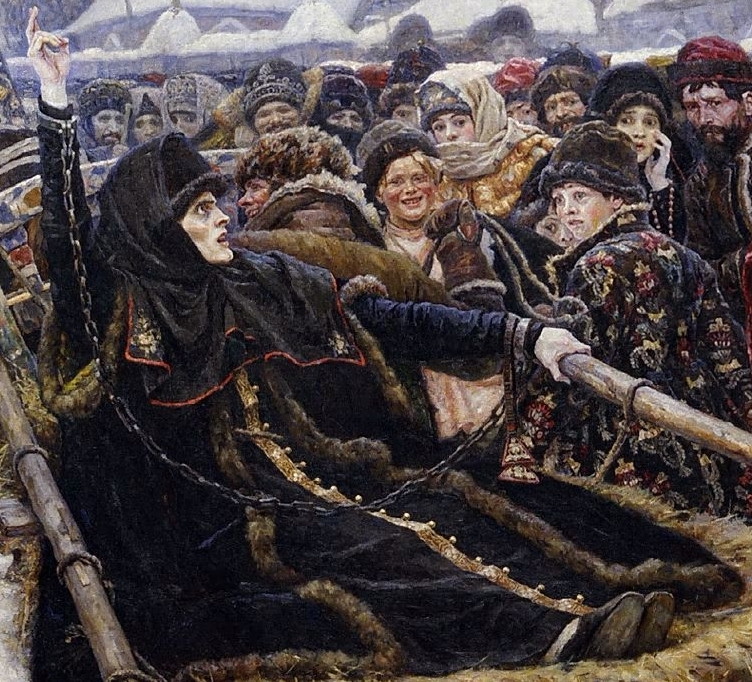 A fragment of painting Boyarynya Morozova by Vasily Surikov depicting a defiant Old Believer arrested by the Czar's authorities in 1671. She holds two fingers raised: a hint of the old "proper" way of crossing oneself: with two fingers, rather than with three.